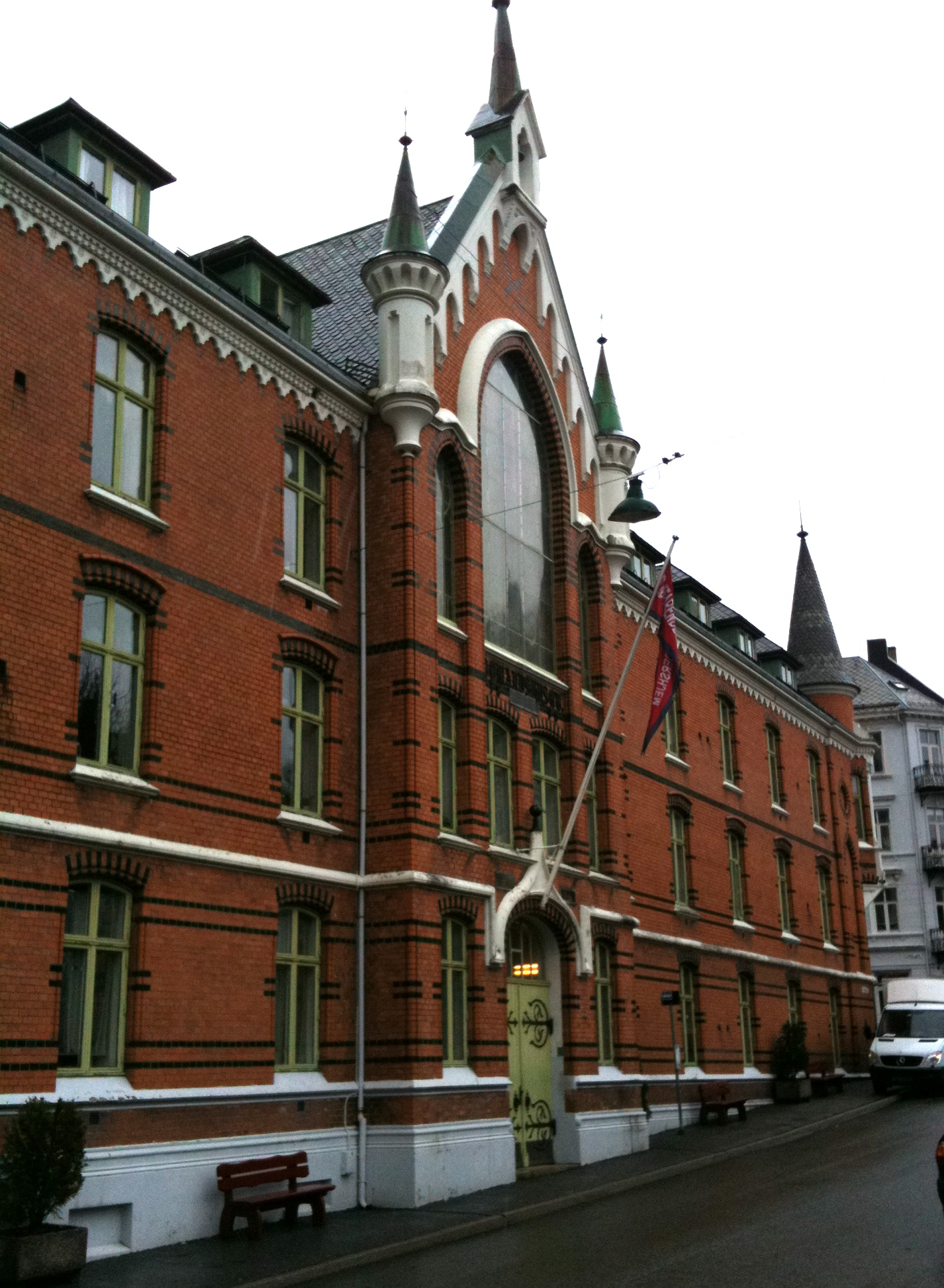 Sjøfarendes aldershjem kapell a church in Bergen, Norway